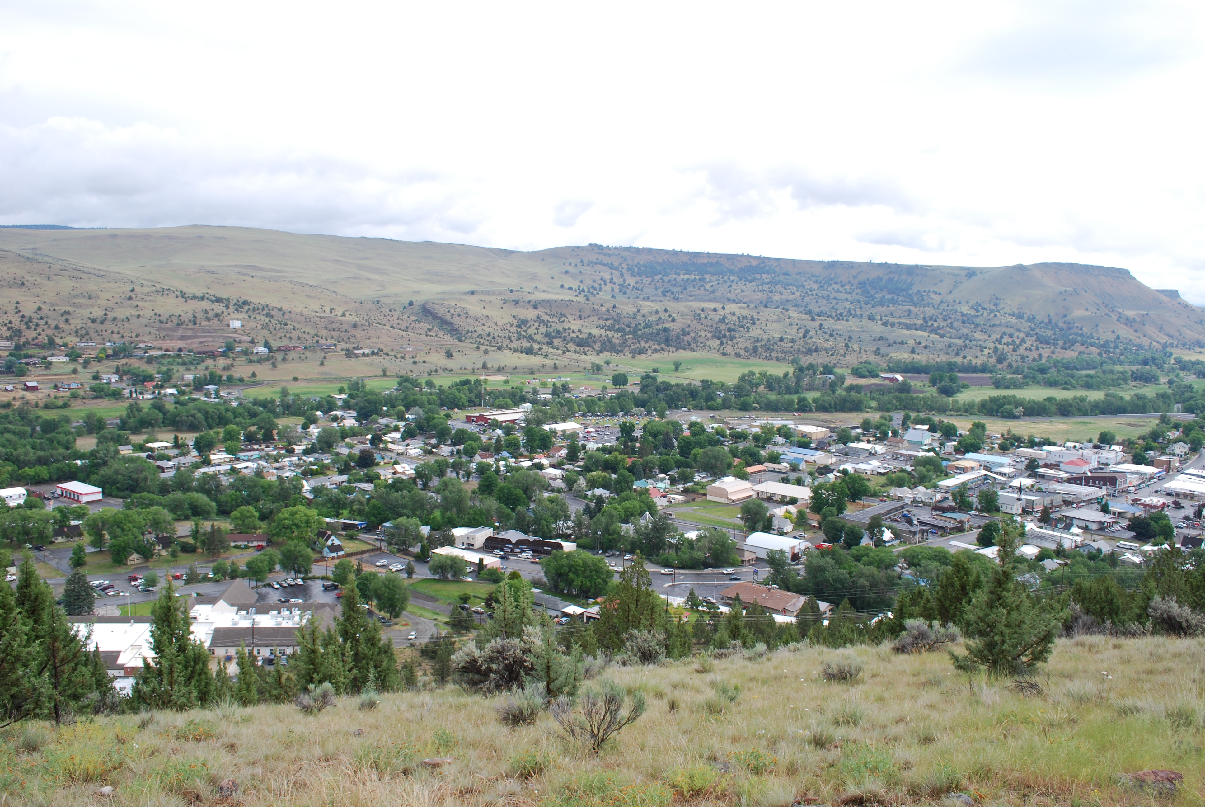 Overview of John Day, Oregon looking north